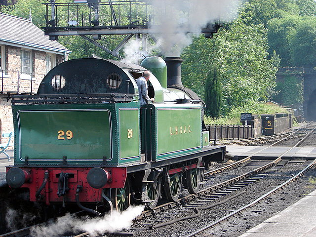 Grosmont Station, North Yorkshire Moors Railway Lambton Tank locomotive no 29 stands in the station. Although now used for passenger services, this locomotive was built in 1904 for use in the Lambton Colliery Railway which operated in the Durham coalfields, later becoming part of the National Coal Board cmpire. Taken out of use by the NCB in 1969, it was purchased for use on the North Yorkshire Moors Railway in 1970.